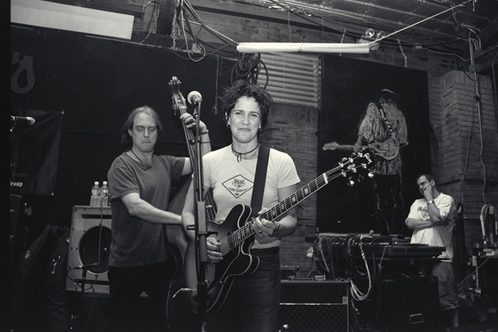 Wendy Melvoin